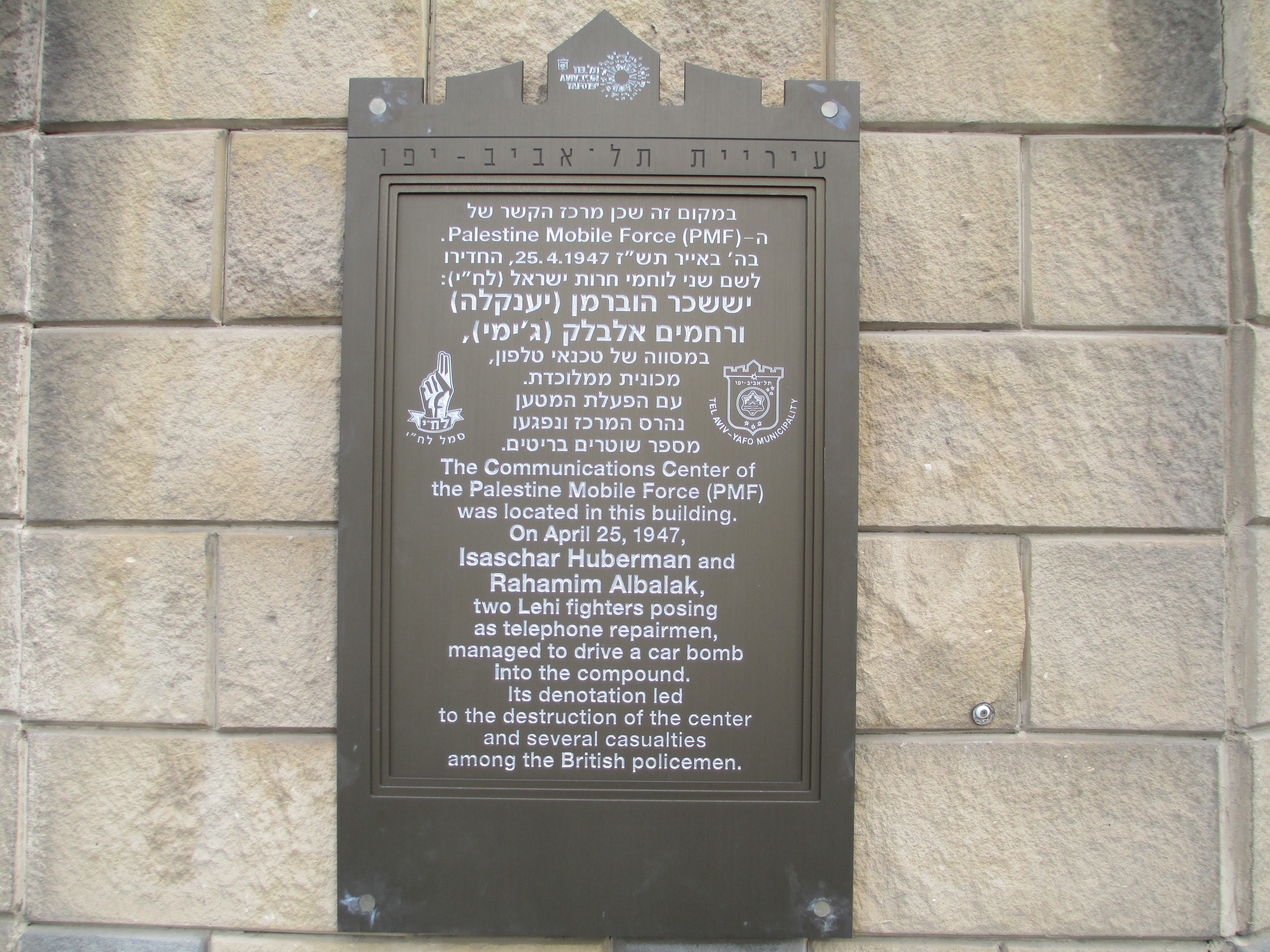 lehi (isreal freedom fighters) memorial plaque in tel aviv